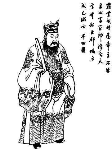 Qing Dynasty Romance of the Three Kingdoms illustration of Dong Zhuo